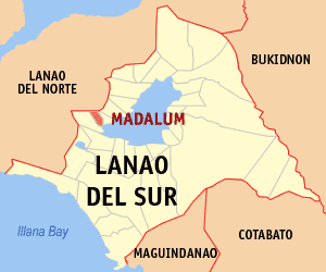 Map of the Lanao del Sur showing the location of Madalum